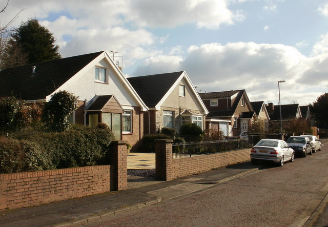 Gloucester Close, Llanyrafon, Cwmbran Viewed from near the Llanyrafon Way junction.